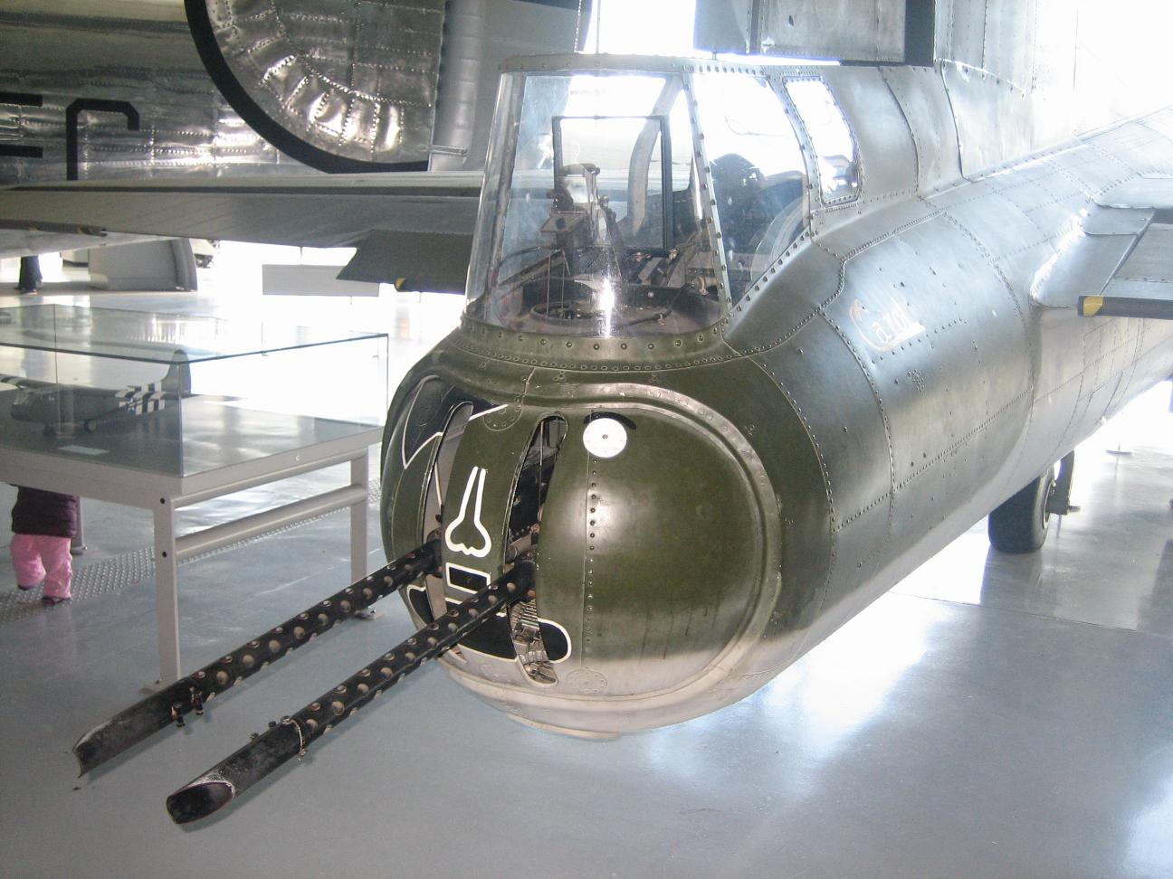 B17 tail turret Summary B17 tail turret from Imperial War Museum, Duxford, UK